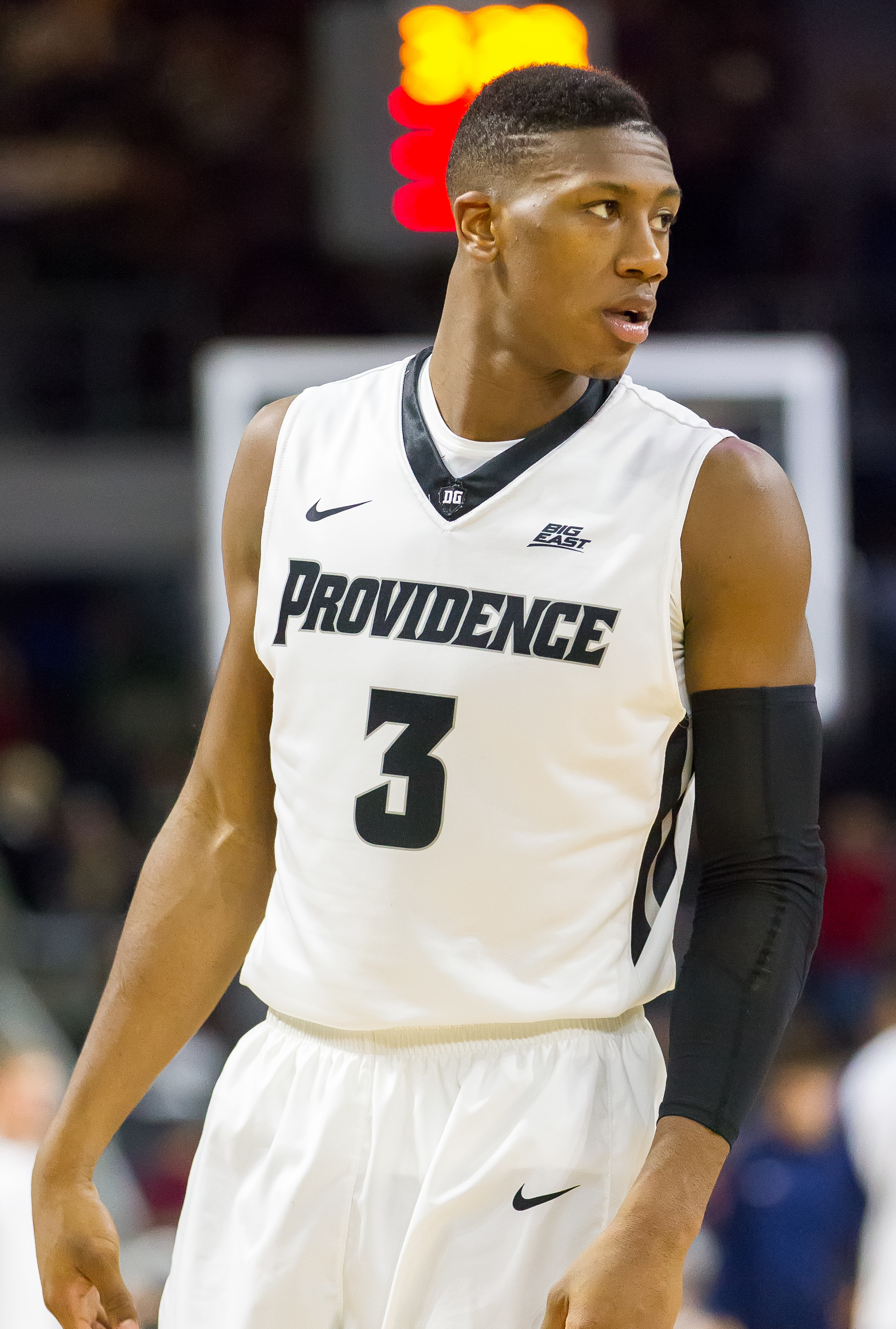 February 6, 2016. Dunkin' Donuts Center, Providence, RI. Photo: ©KJ Sports Pics